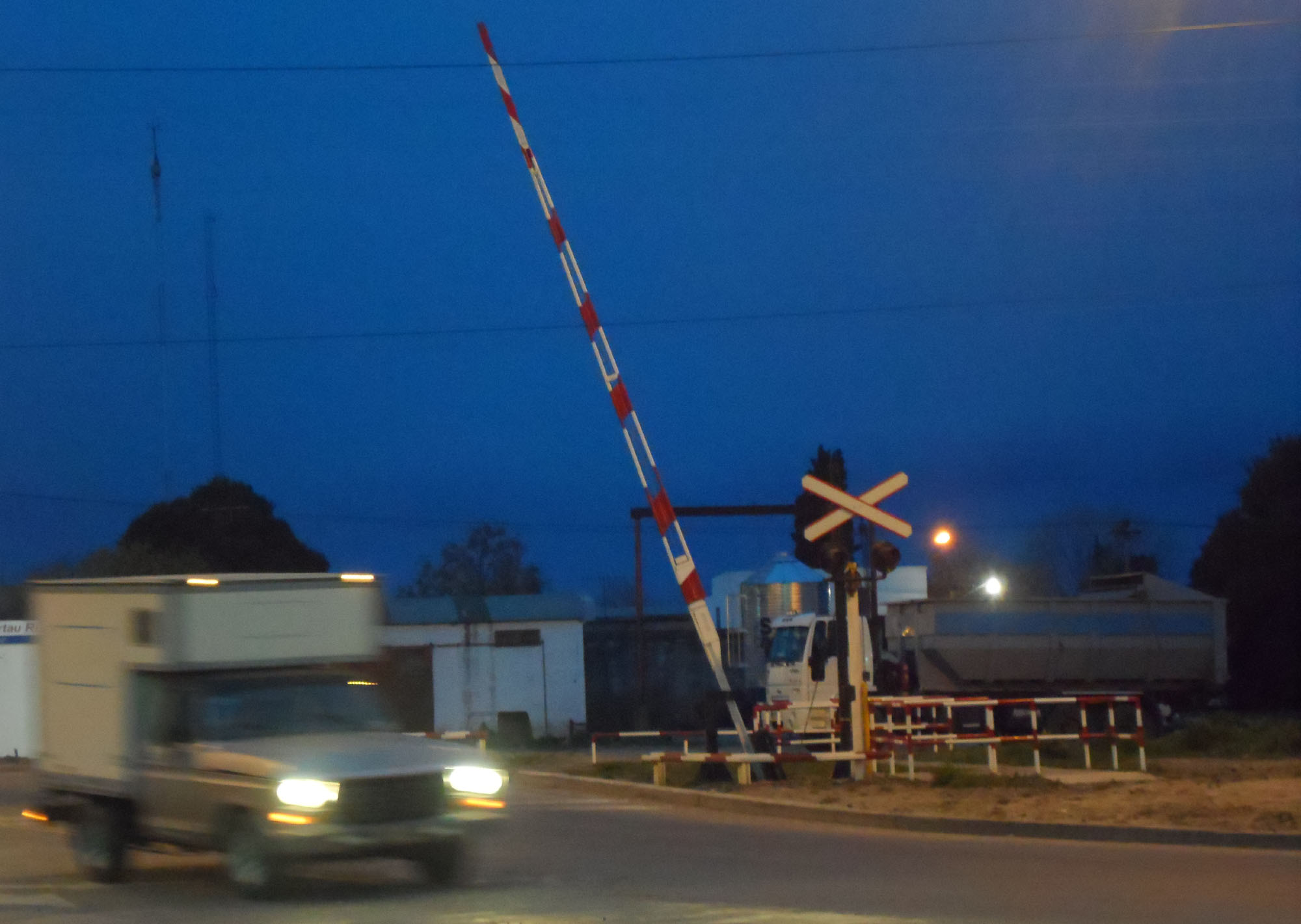 Level crossing on the intersection of routes 215 and 29 in Brandsen, Buenos Aires Province. The crossing is next to the town's train station.